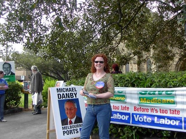 Polling day in Victoria, Australia. A woman giving out how-to-vote sheets in St Kilda for Michael Danby, Labor candidate for Melbourne Ports.